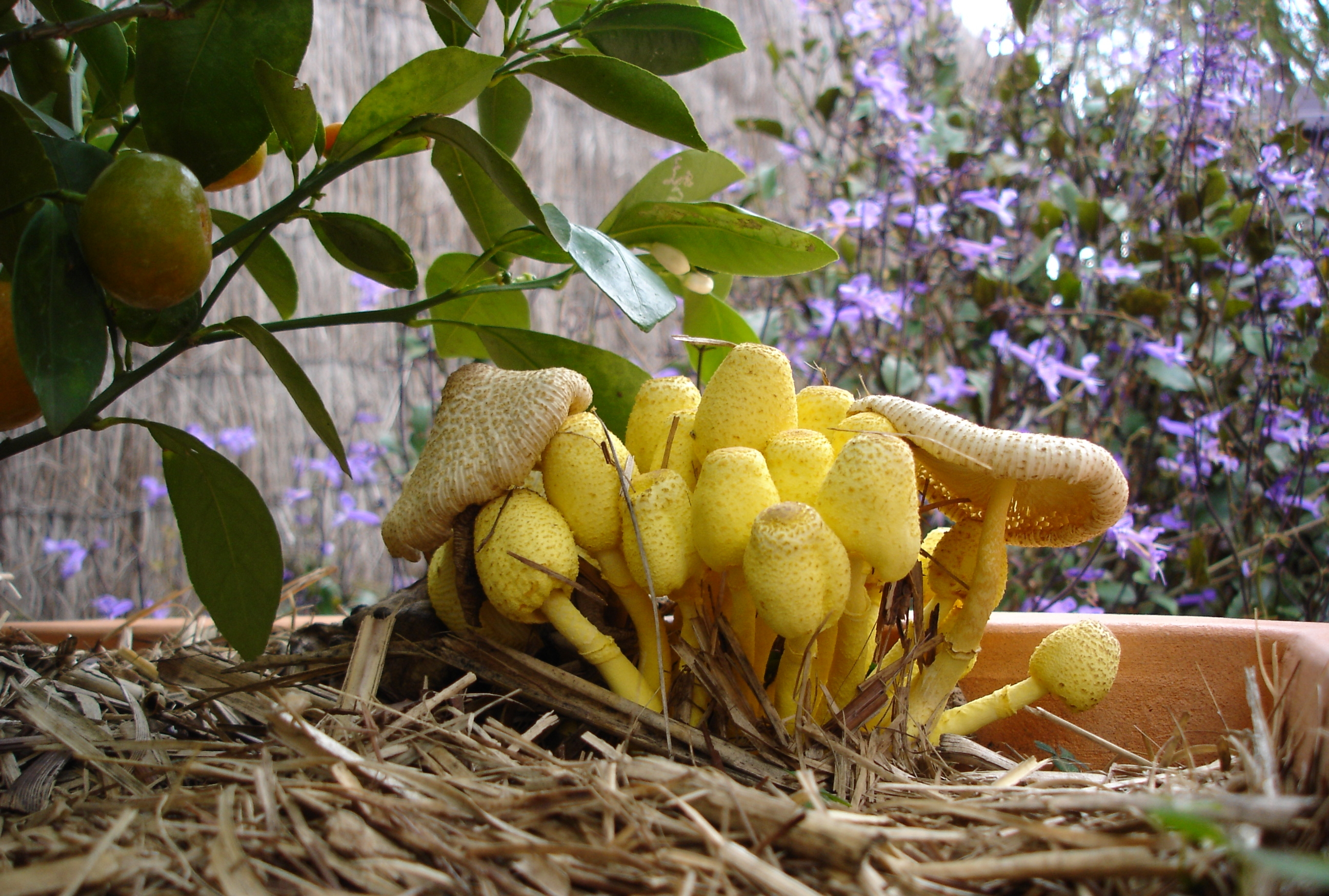 Photograph taken by me, April 27, 2007. Identified as Leucocoprinus birnbaumii (Corda) Singer, a common tropical, flower pot mushroom Heliocybe 12:06, 17 May 2007 (UTC)